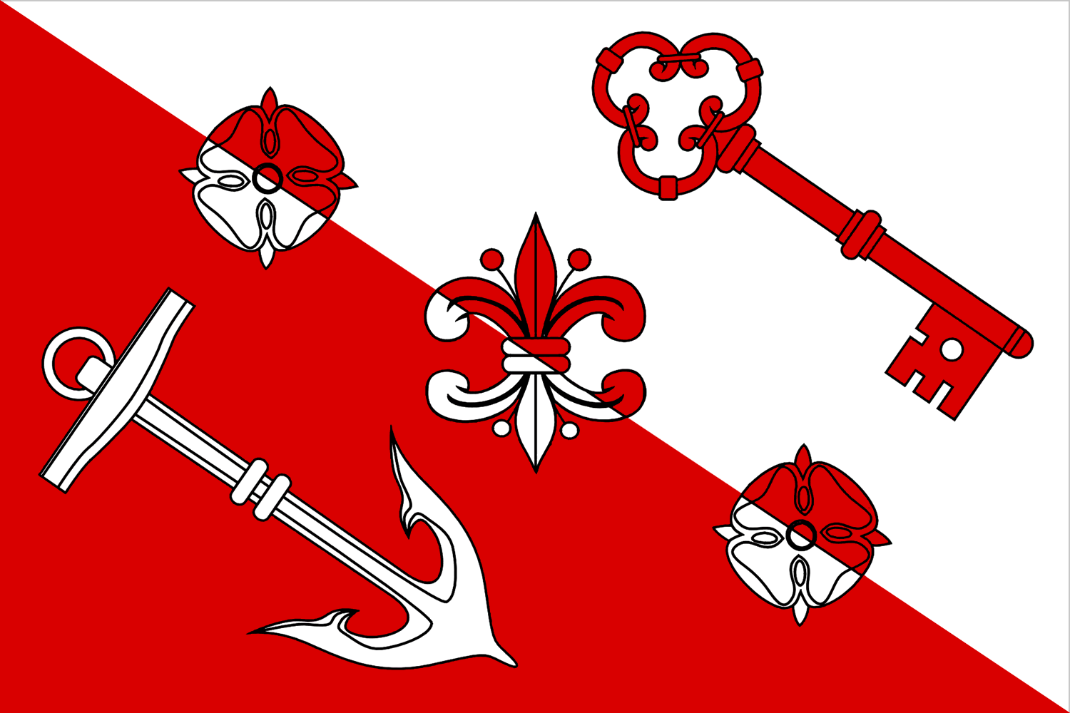 Flag of Dzerzhinskoe rural settlement, Leningrad Region, Russia